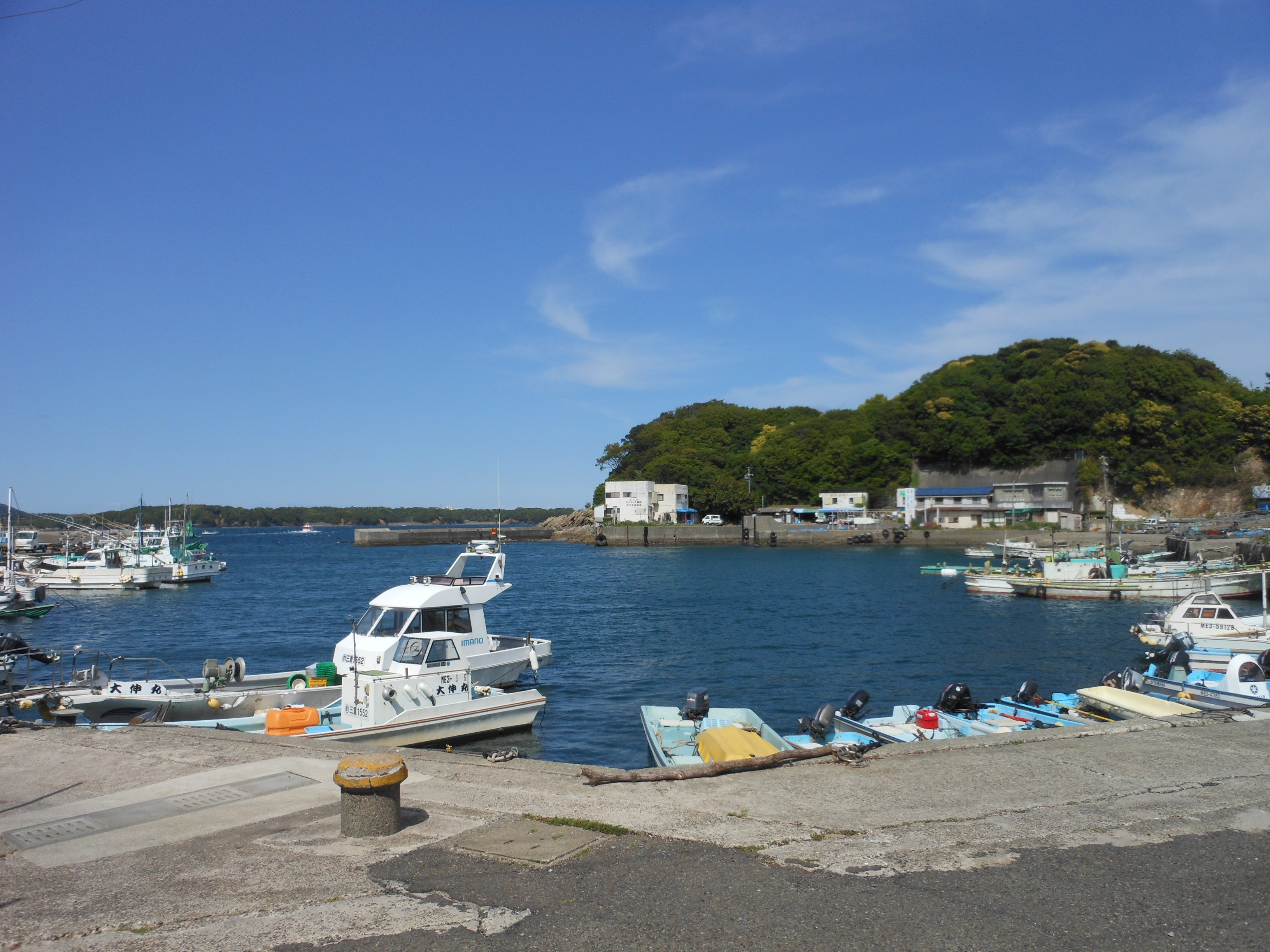 This is the Goza Fishing Port in Shimacho-Goza, Shima, Mie, Japan.